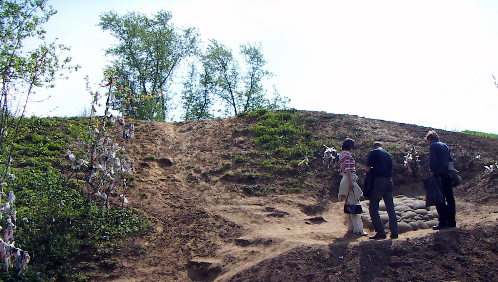 Stone veneration in Kolomenskoe, Moscow. Diviy Stone can be seen, as well as Wish Trees around.